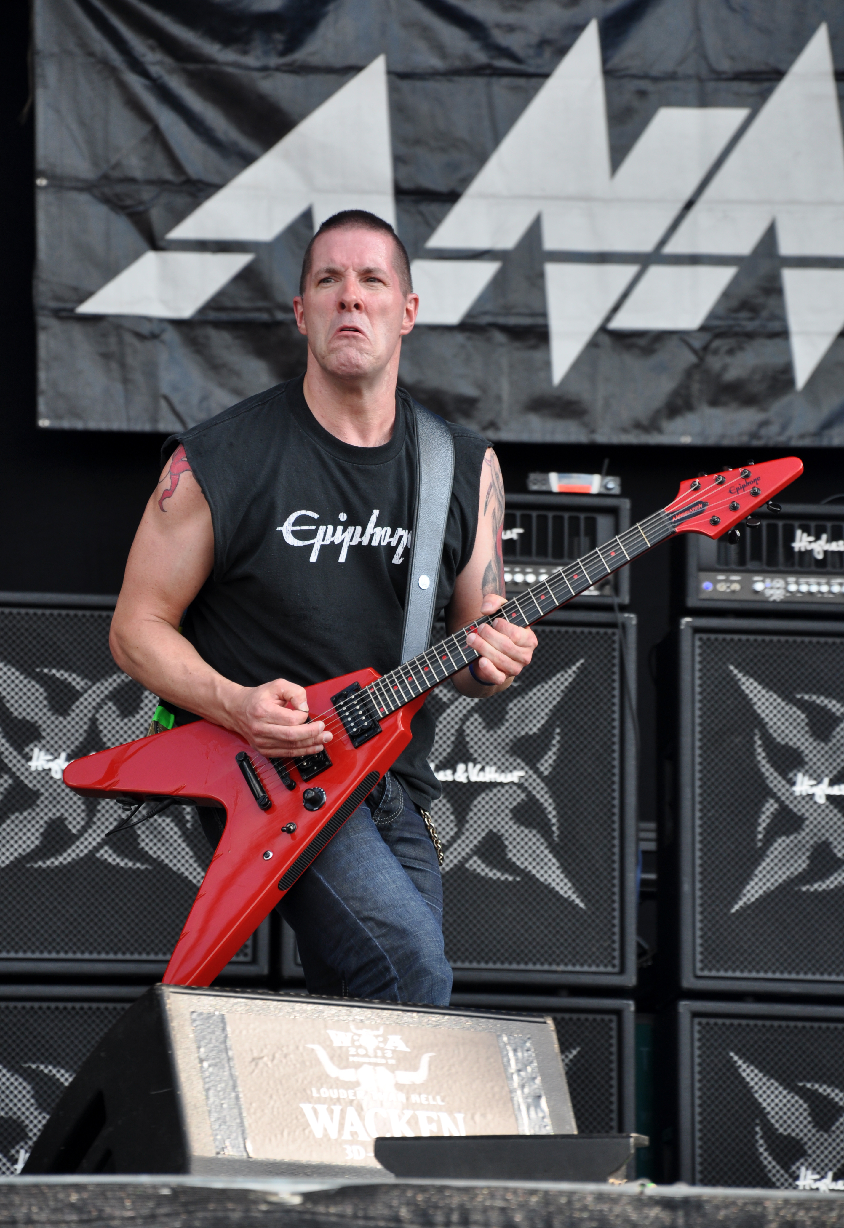 Annihilator at Wacken Open Air 2013